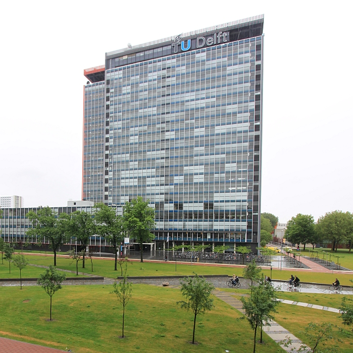 TU Delft: Electrotechnics, Mathematics and Computer Science (EWI), Building No. 36, Mekelweg 4, 2628 CD, Delft